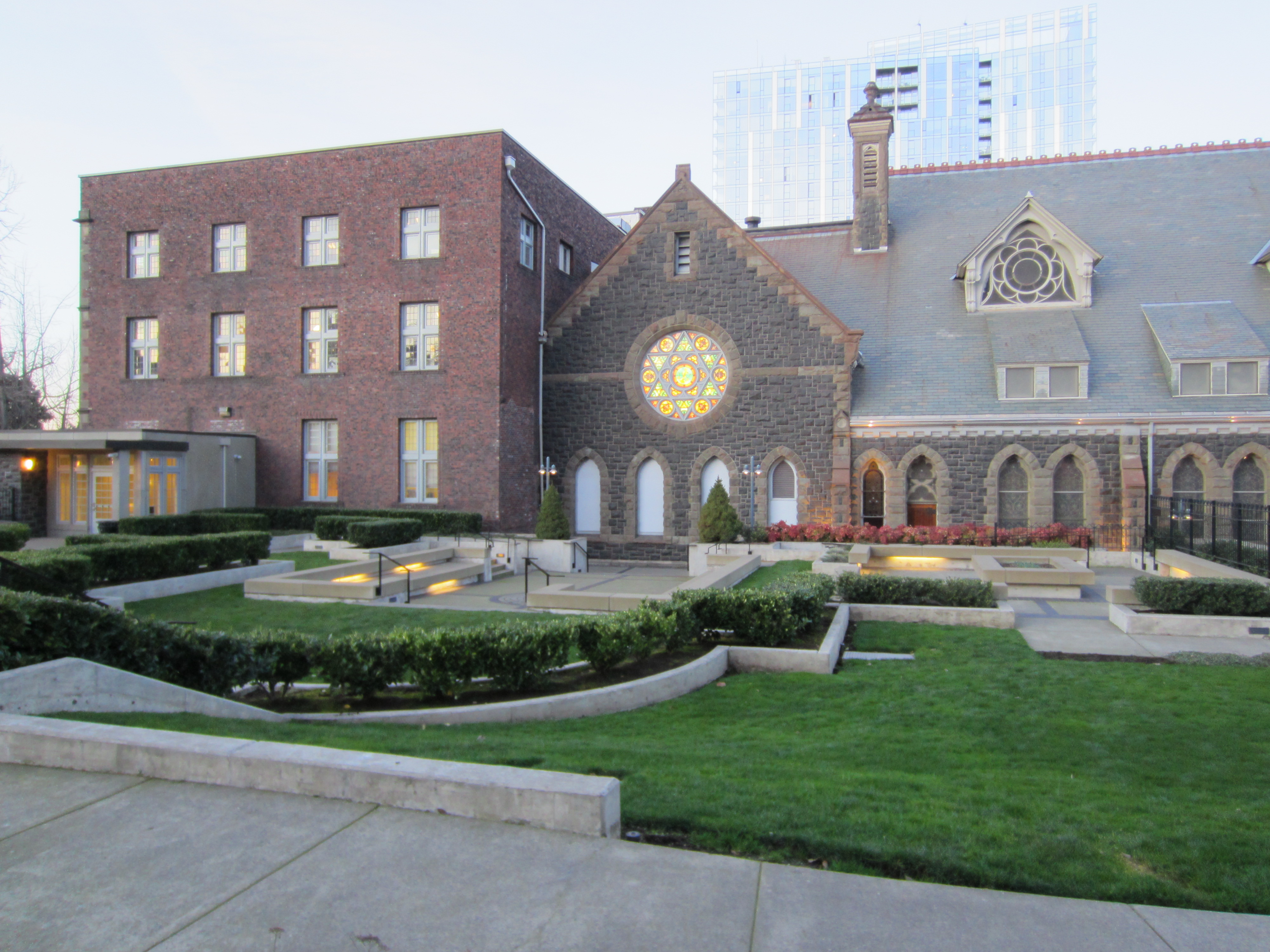 First Presbyterian Church in downtown Portland, Oregon in 2012